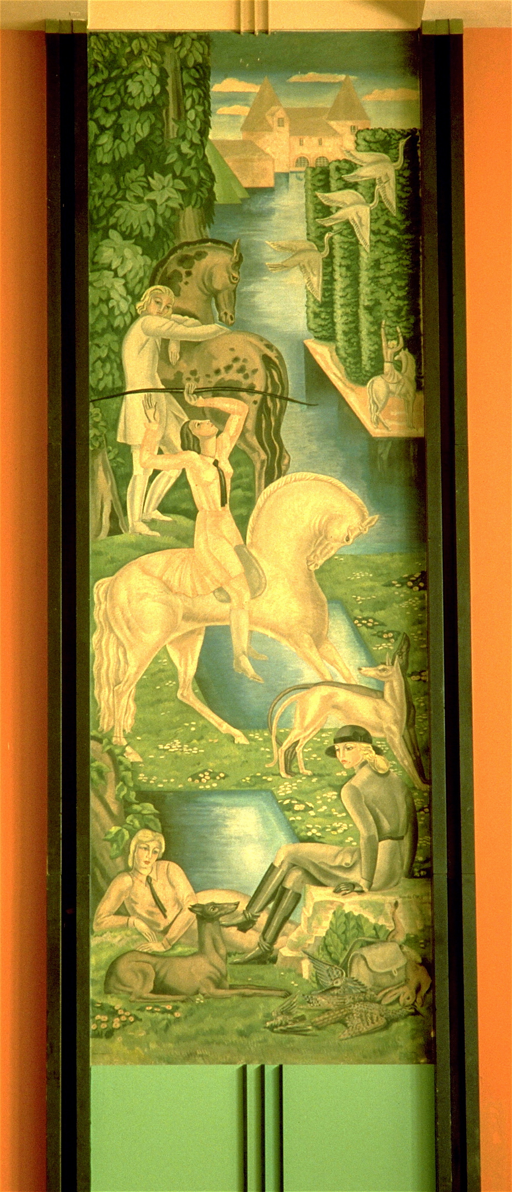 Mural by Natasha Carlu at Eatons Montreal, Ninth Floor (Montreal, Canada)Eaton's Ninth Floor Restaurant